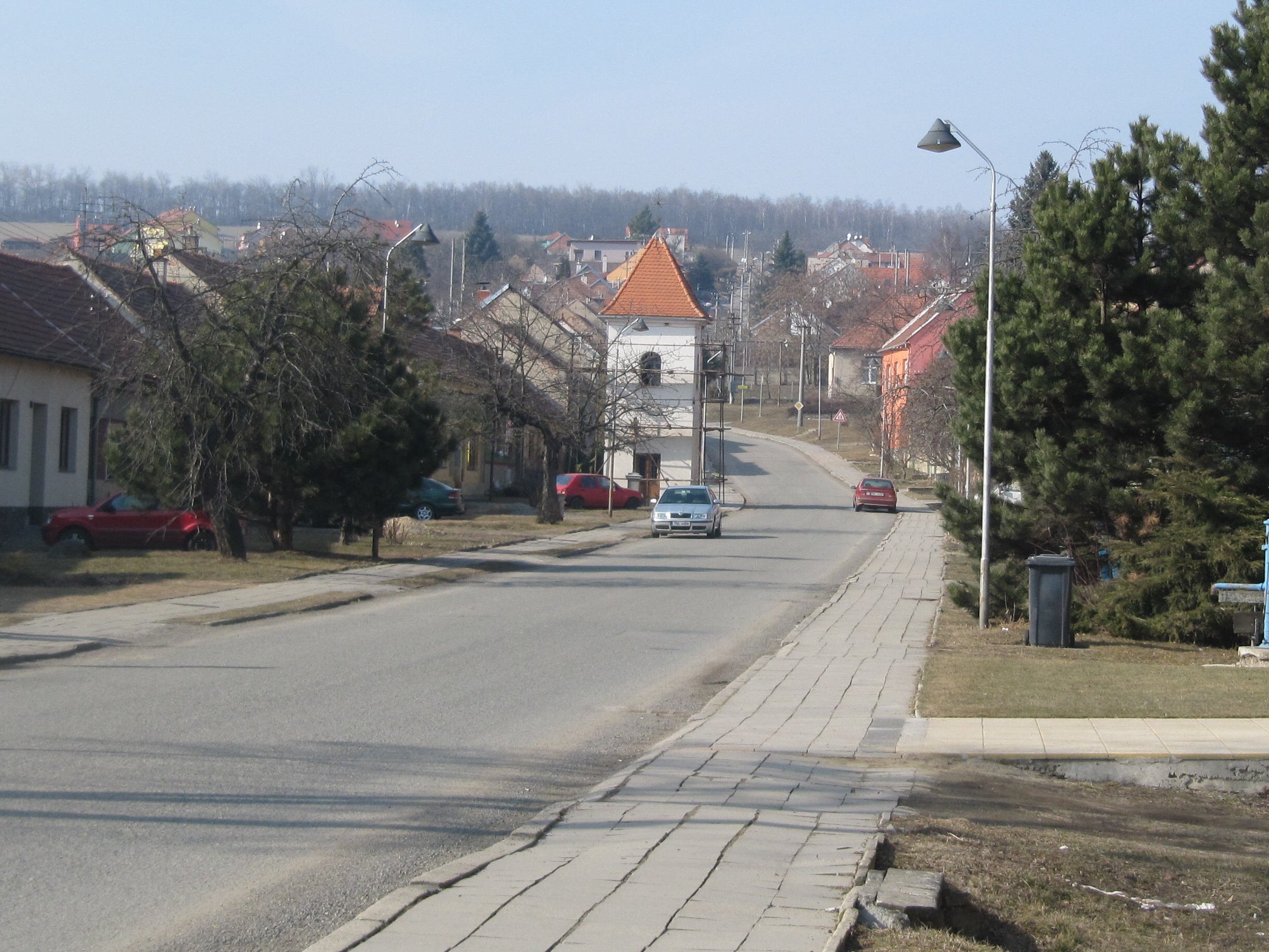 Zbýšov in Vyškov District, Czech Republic. Common, belfry.